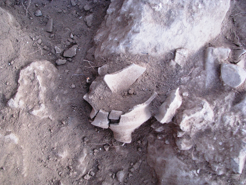 Jugs in Situ, Khirbet Qeiyafa, archaeology site excavation, Israel ca. 2009